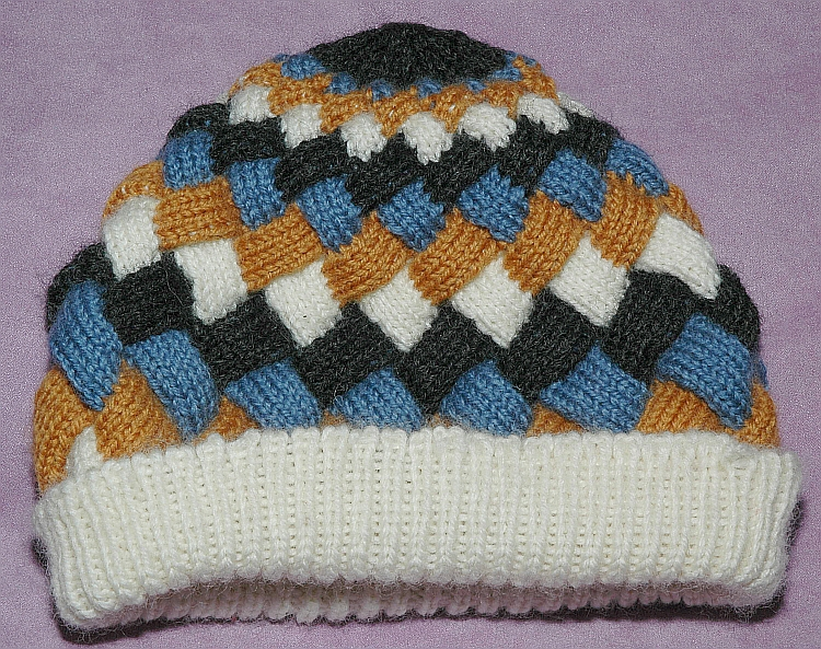 Molly Leonard, my photo, my hat